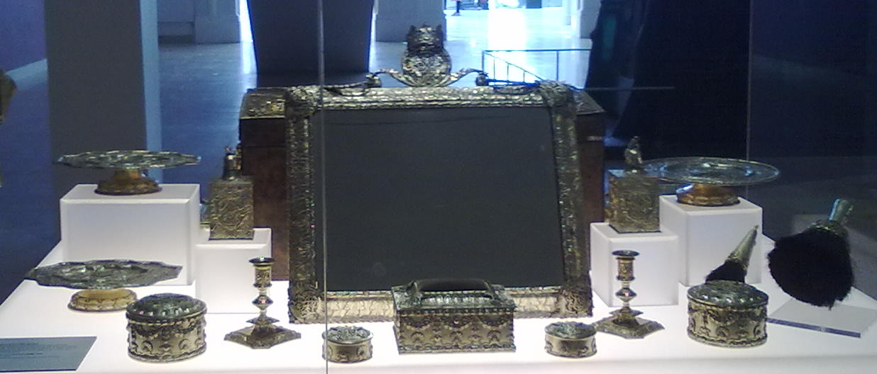 Toilet service previously belonging to Francis Stuart. Made in Paris. Part of the collection on display at the National Museum of Scotland